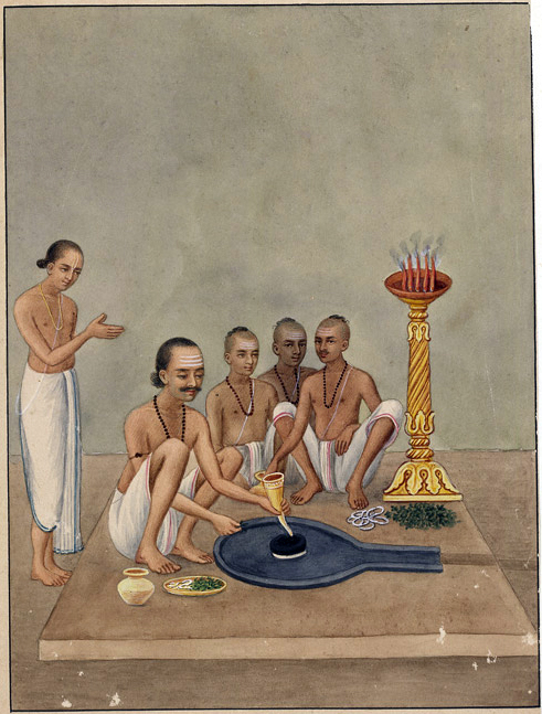 Priests conducting worship inside the Baijnath temple, Deogarh, a watercolor by Shiva Lal, c.1870* (BL)